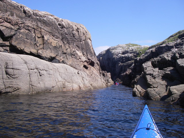 Paddling the Gap between Oisteim and Cearstaigh, Off Scarp Harris